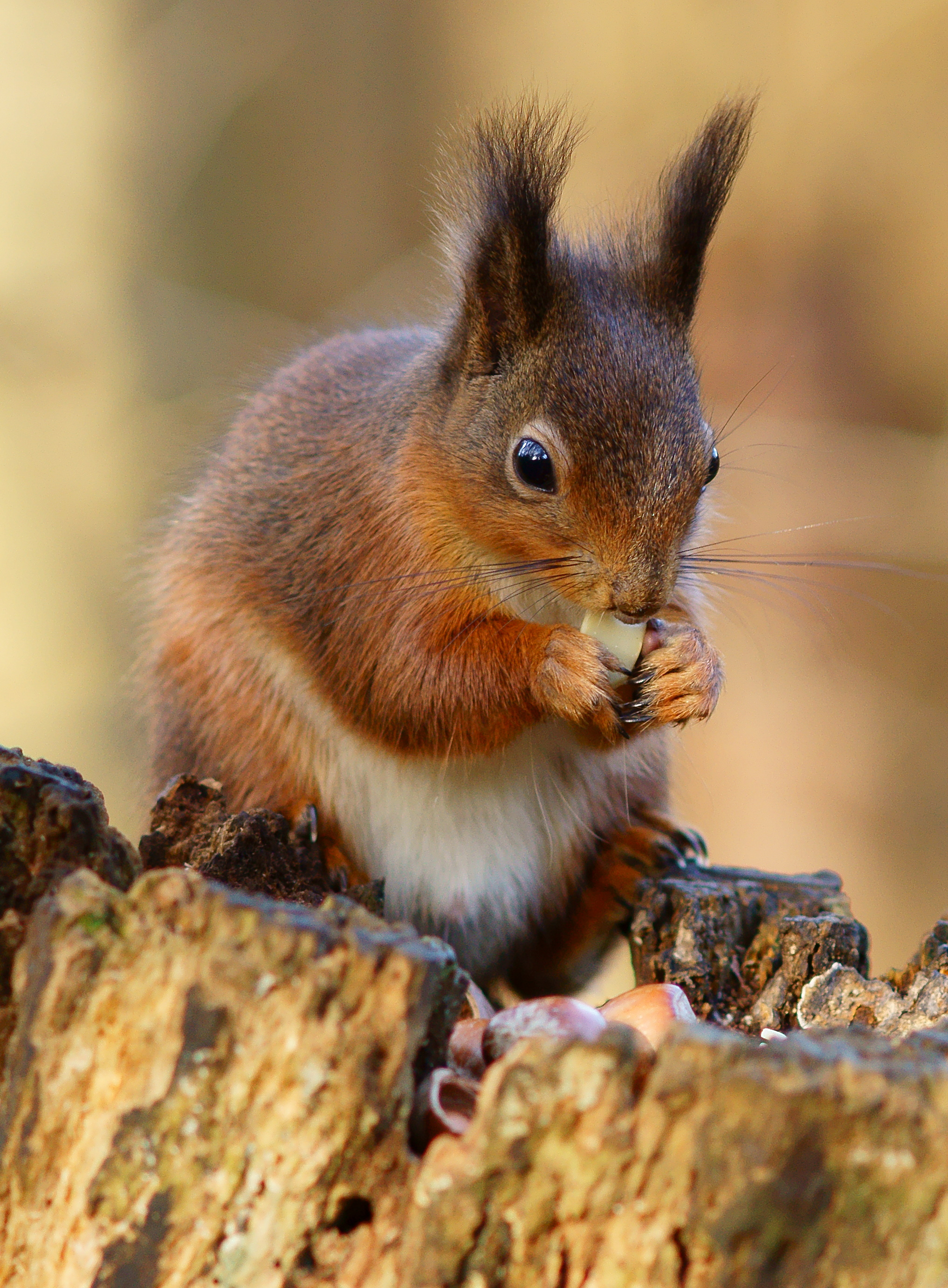 At the Alverstone Mead Nature Reserve, the squirrel sits in characteristic pose, whilst nibbling on a nut. Note how the squirrel's paws have evolved; four 'fingers' with claws to enable easy climbing and digging, plus a vestigial 'thumb' to hold food, whilst eating.